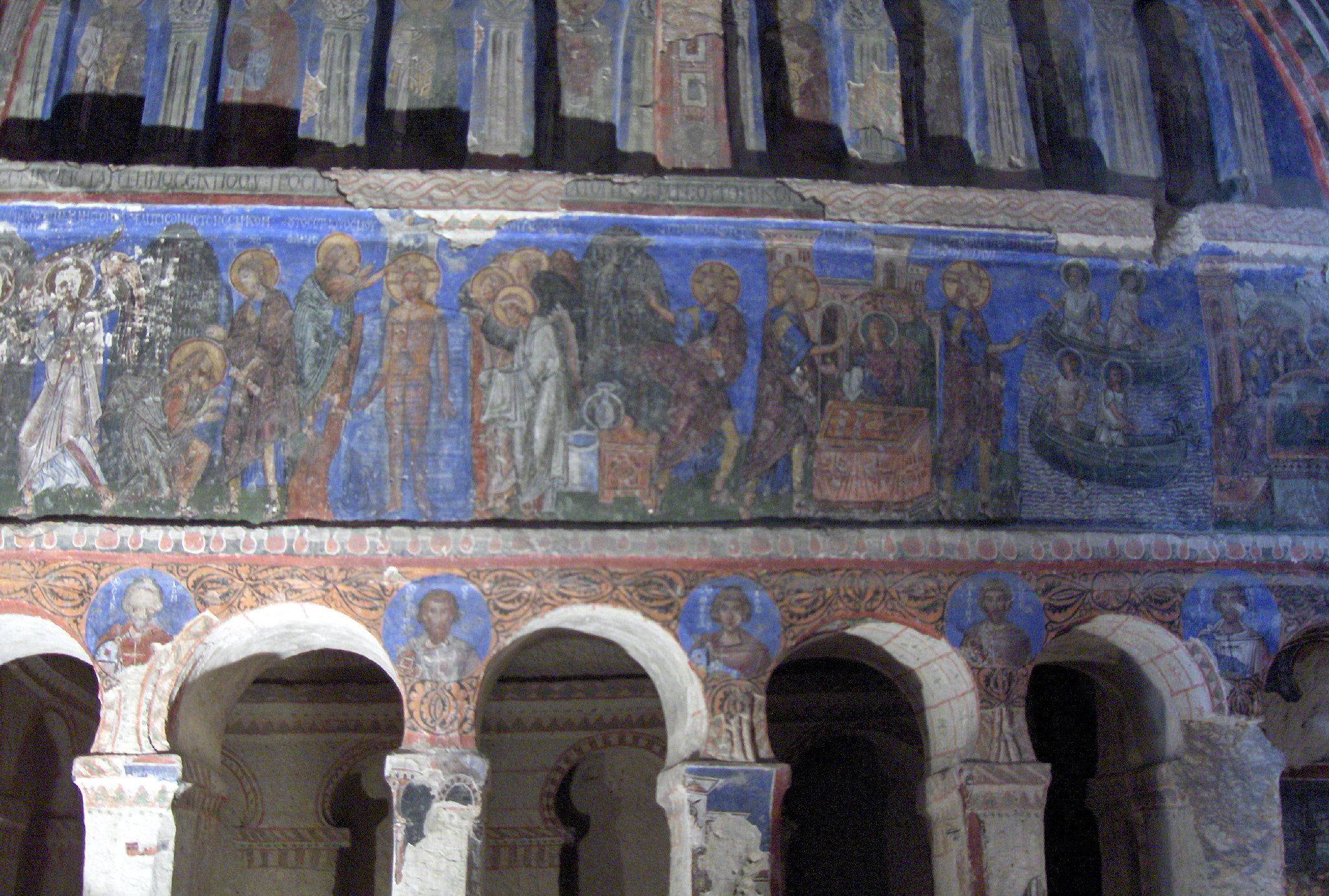 Fresco of the life of Jesus. Göreme valley open air museum; Cappadocia, Turkey